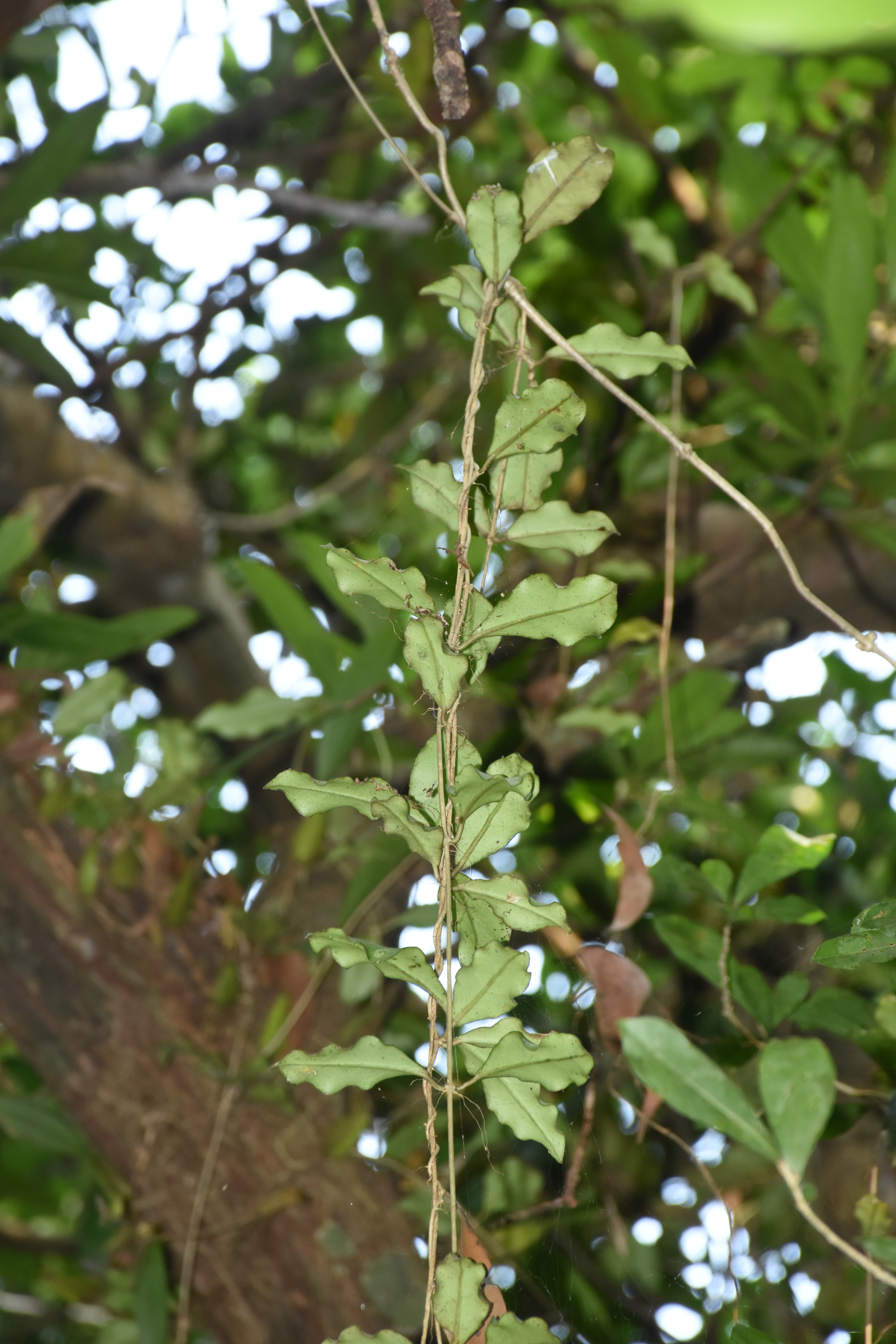 At Neeliyarkottam